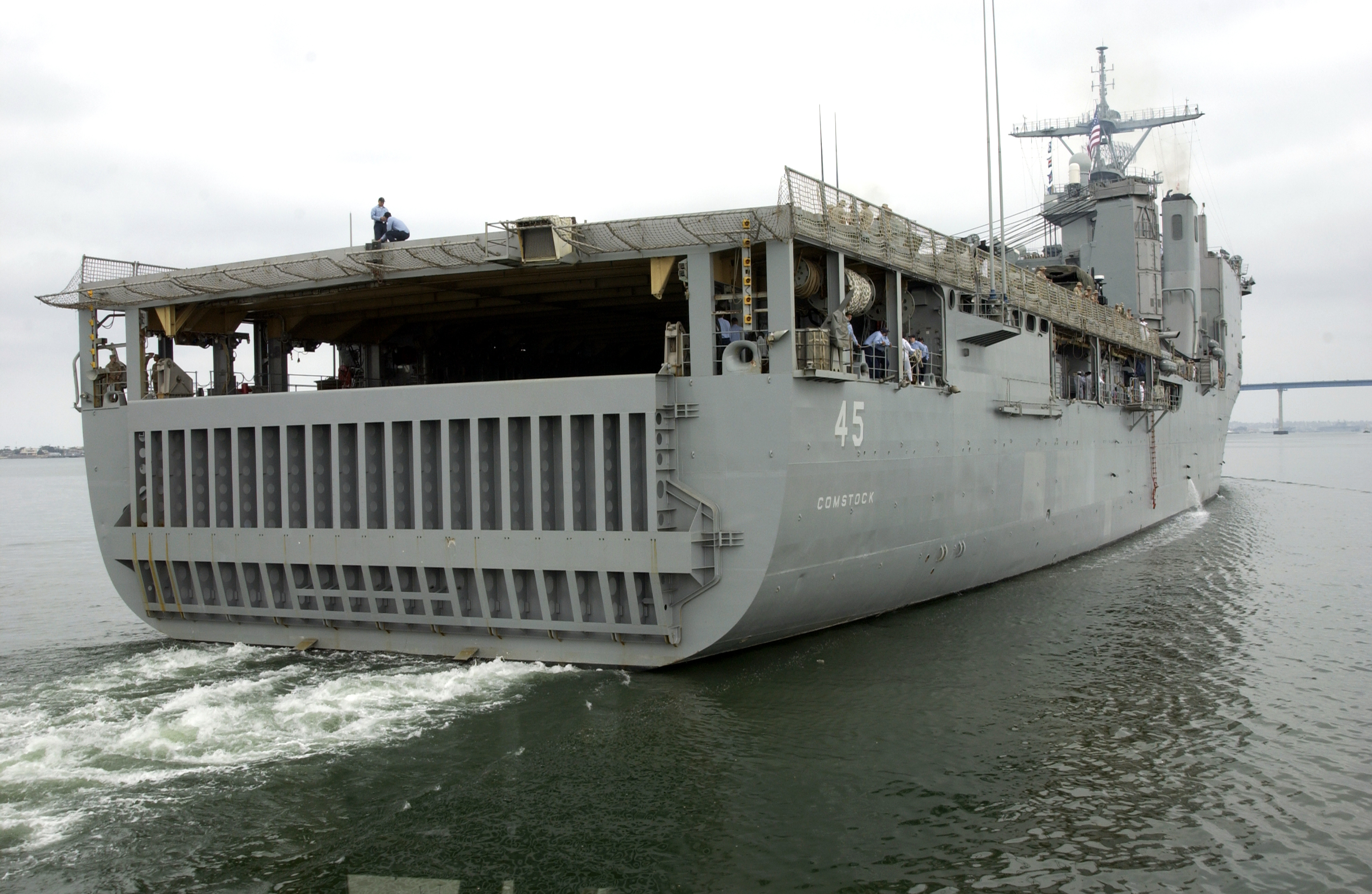 040527-N-9414C-081 San Diego, Calif. (May 27, 2004) - The amphibious dock landing ship USS Comstock (LSD 45) steams toward the Coronado Bay Bridge of San Diego as it gets underway for deployment. U.S. Navy photo by Photographer's Mate 3rd Class Bre' N. Cameron-Smith (RELEASED)